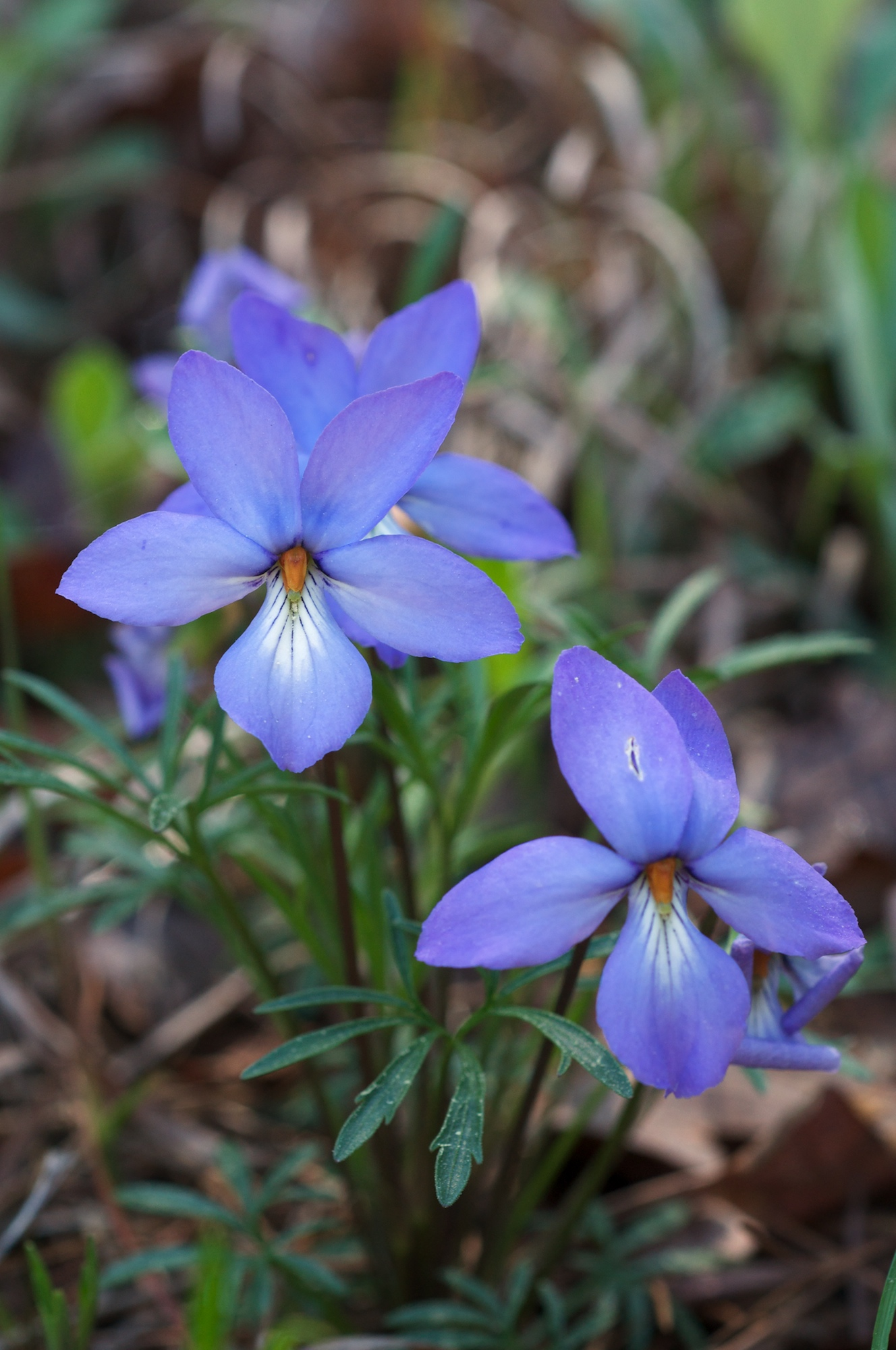 Species from eastern North America Common name: Showy Birdsfoot Violet Photographed along AR 12 inside Hobbs State Park / Conservation Management Area, northwestern Arkansas